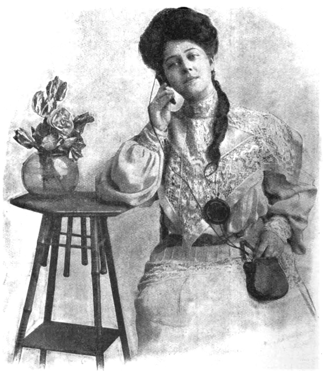 Probably from an advertisement for the "Acousticon", the first portable electric hearing aid, invented by Miller Reese Hutchison (1876–1944) in the USA and marketed there and in Europe.